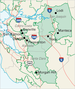 Clip of Image:Ca11 108.gif California Congressional District 11, from U.S. National Atlas (printable congressional districts map section)